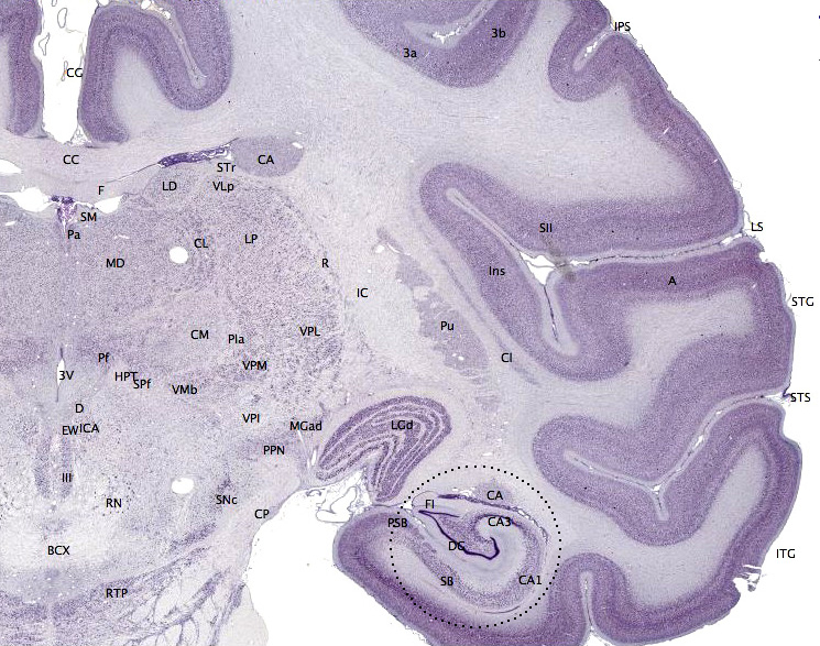 modified version of